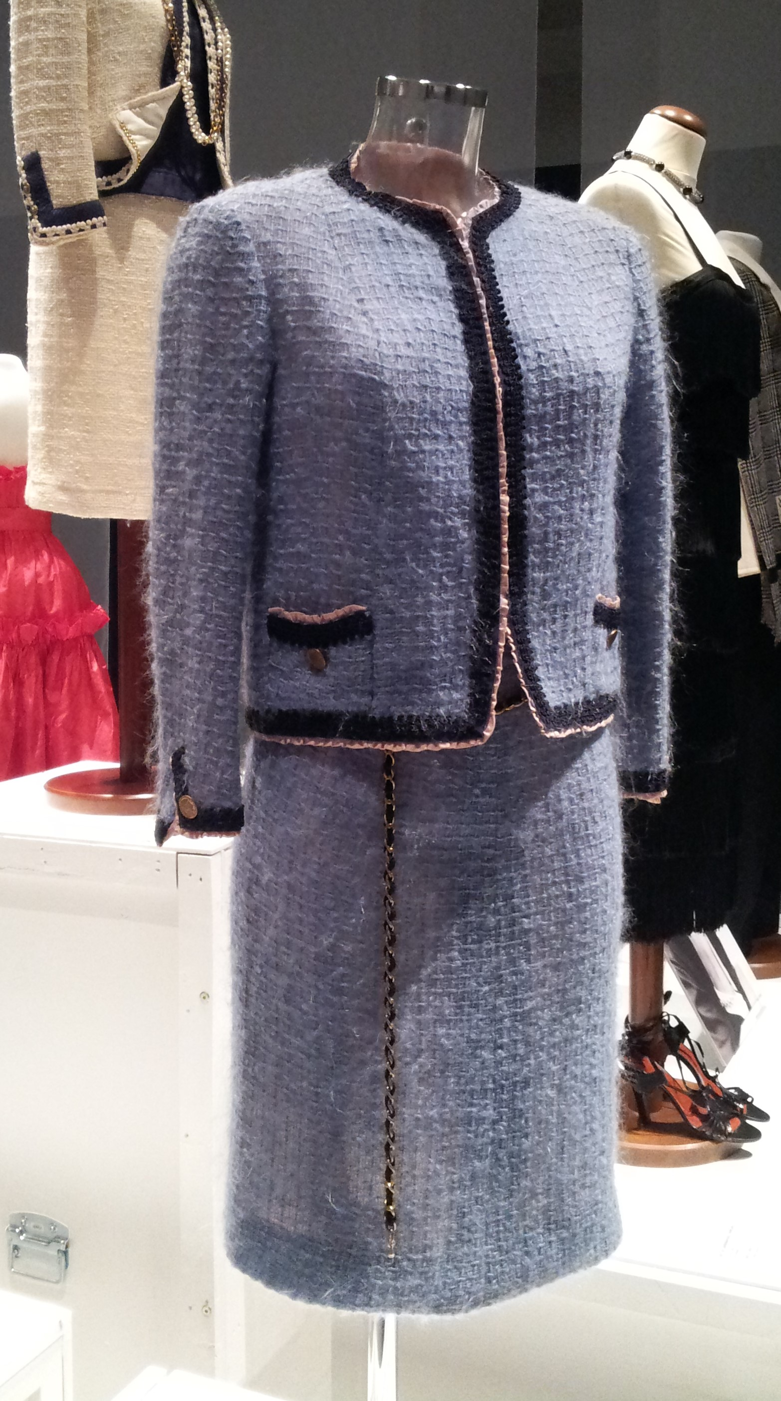 Classic Chanel suit in purple mohair tweed. c.1965